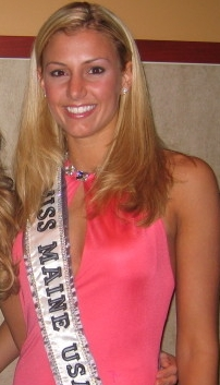 Katee Stearns (Miss Maine USA 2006), in a picture taken during a party prior to the Miss USA 2006 pageant.